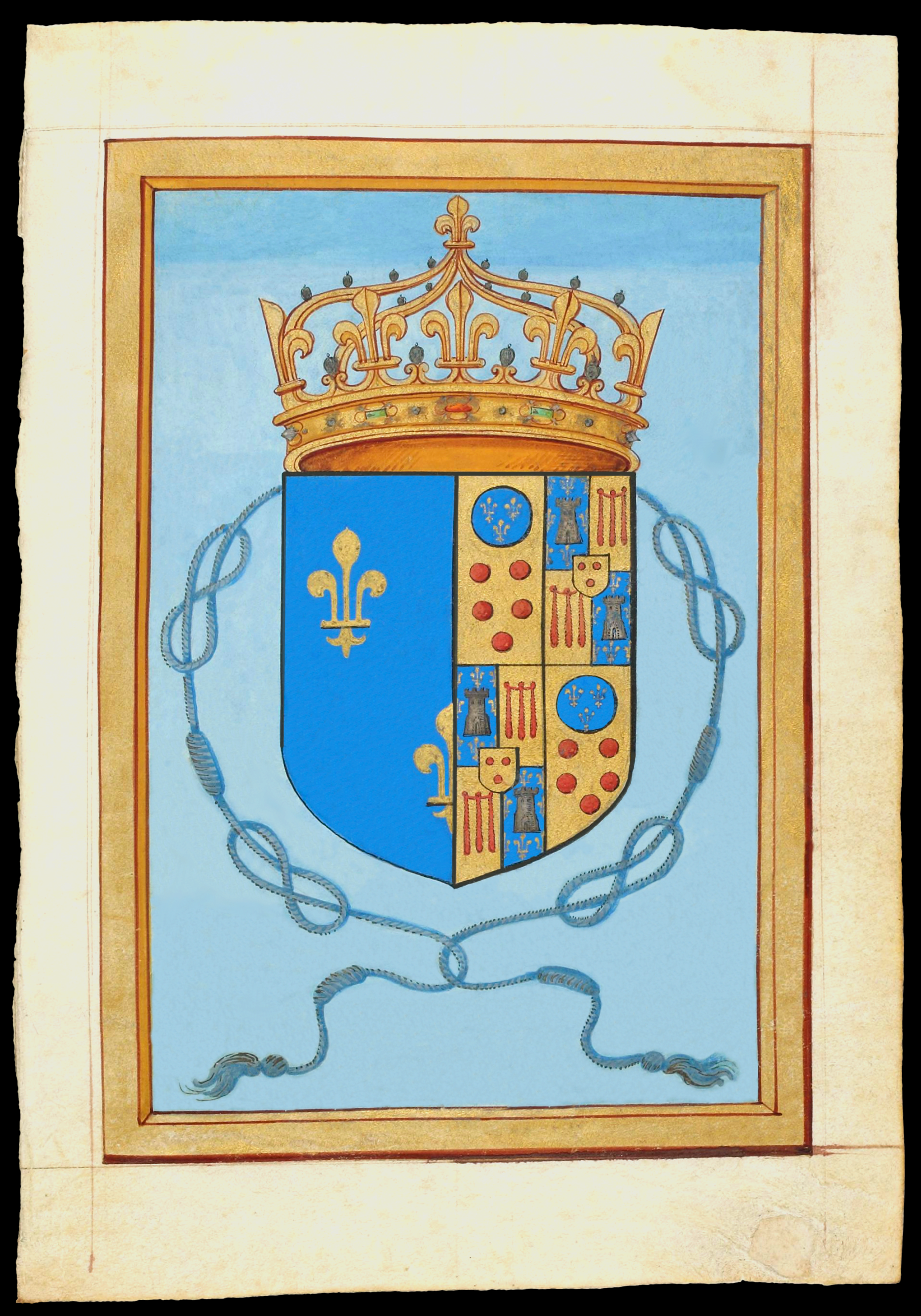 CoA of queen of France Catherine de' Medici (1519 - 1589), as widow of king Henry II of France.